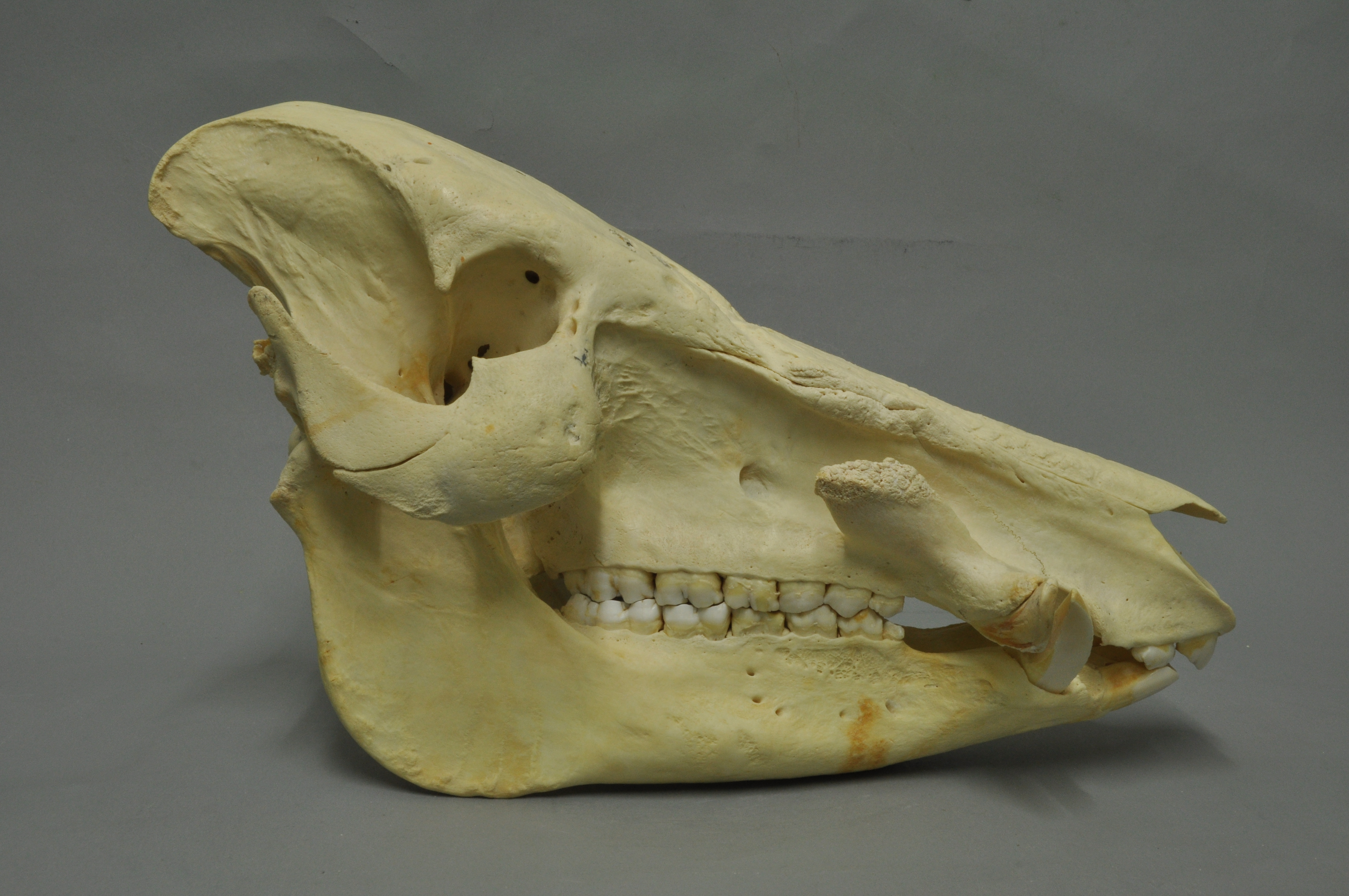 Red river hog Potamochoerus porcus, skull, Coll. Museum Wiesbaden